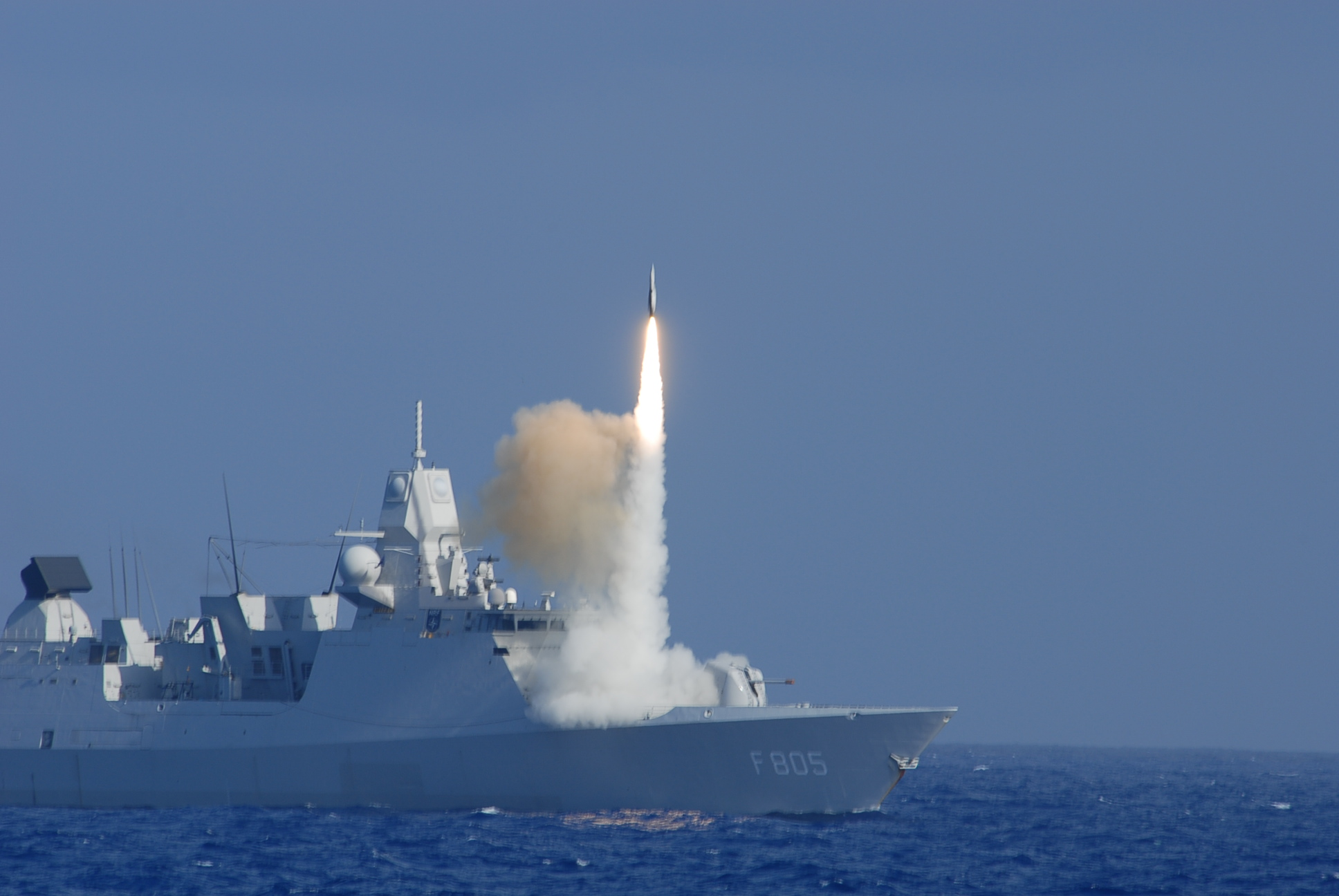 HNLMS Evertsen (F805) fires a SM-2